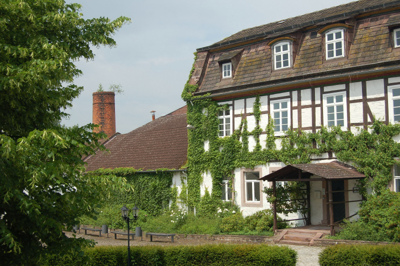 Germany / Town of Fürstenberg, castle of Fürstenfeld